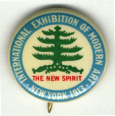 Armory show button, 1913, from the Archives of American Art, Smithsonian Institution.